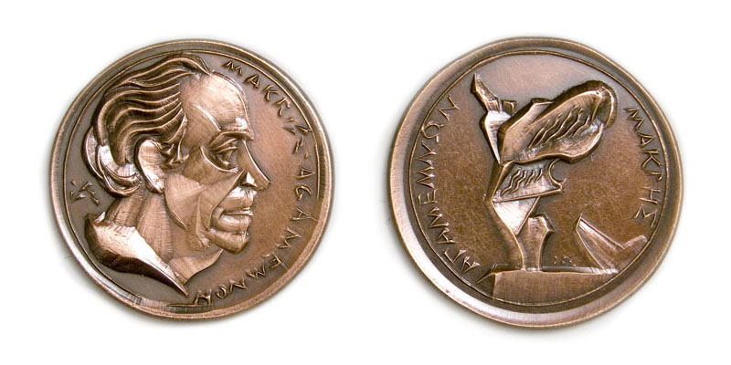 Memos Makris, (Αγαμέμνων Μακρής, Μέμος Μακρής, Makrisz Agamemnon) memorial medal